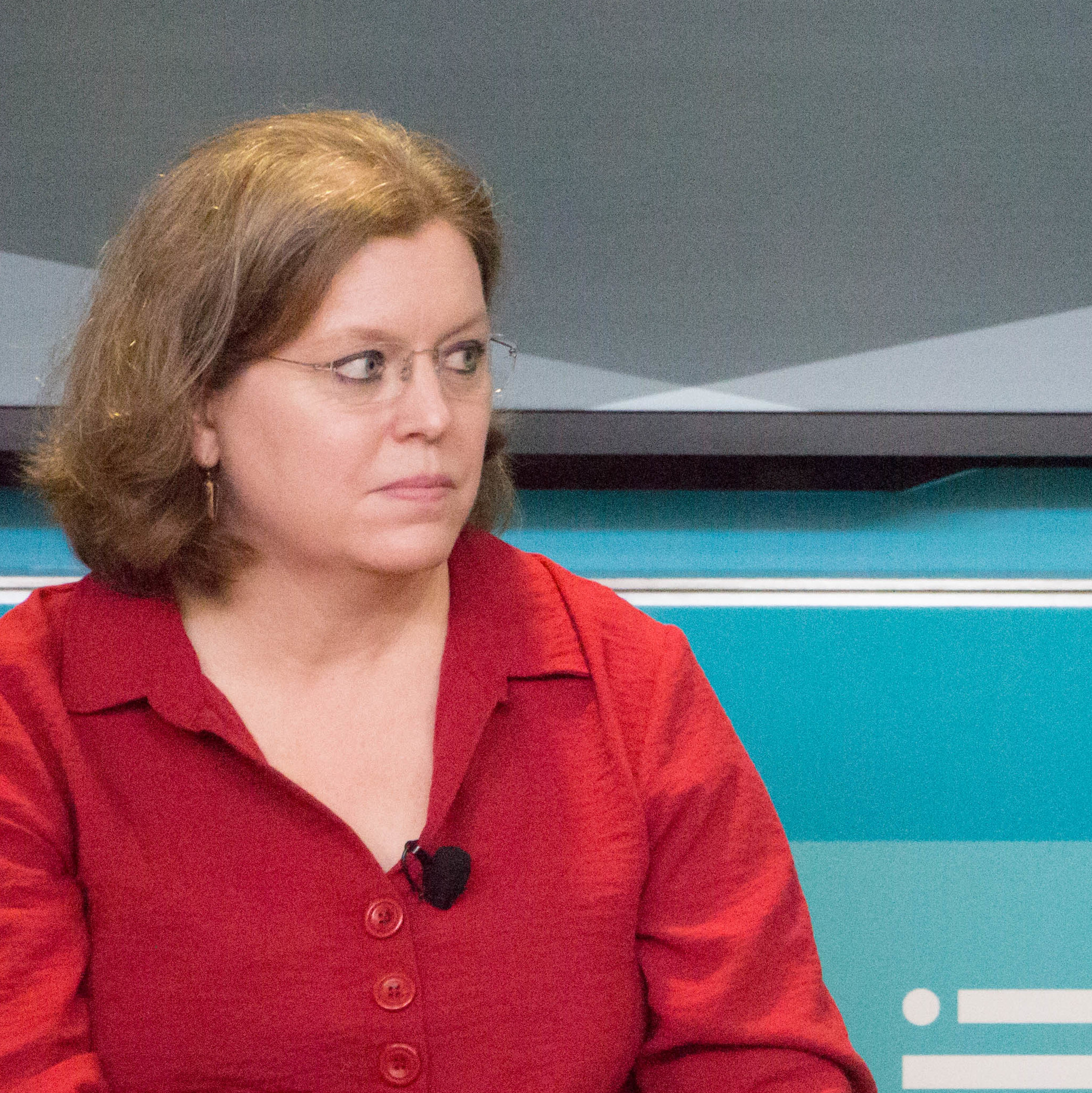 Kristin A. Goss, Associate Professor of Public Policy and Political Science, Duke University, Director, Duke in DC; She became the Kevin D. Gorter Professor of Public Policy and Political Science at Duke University. David Callahan, Founder and Editor, Inside Philanthropy, Author, The Givers: Wealth, Power, and Philanthropy in a New Gilded Age